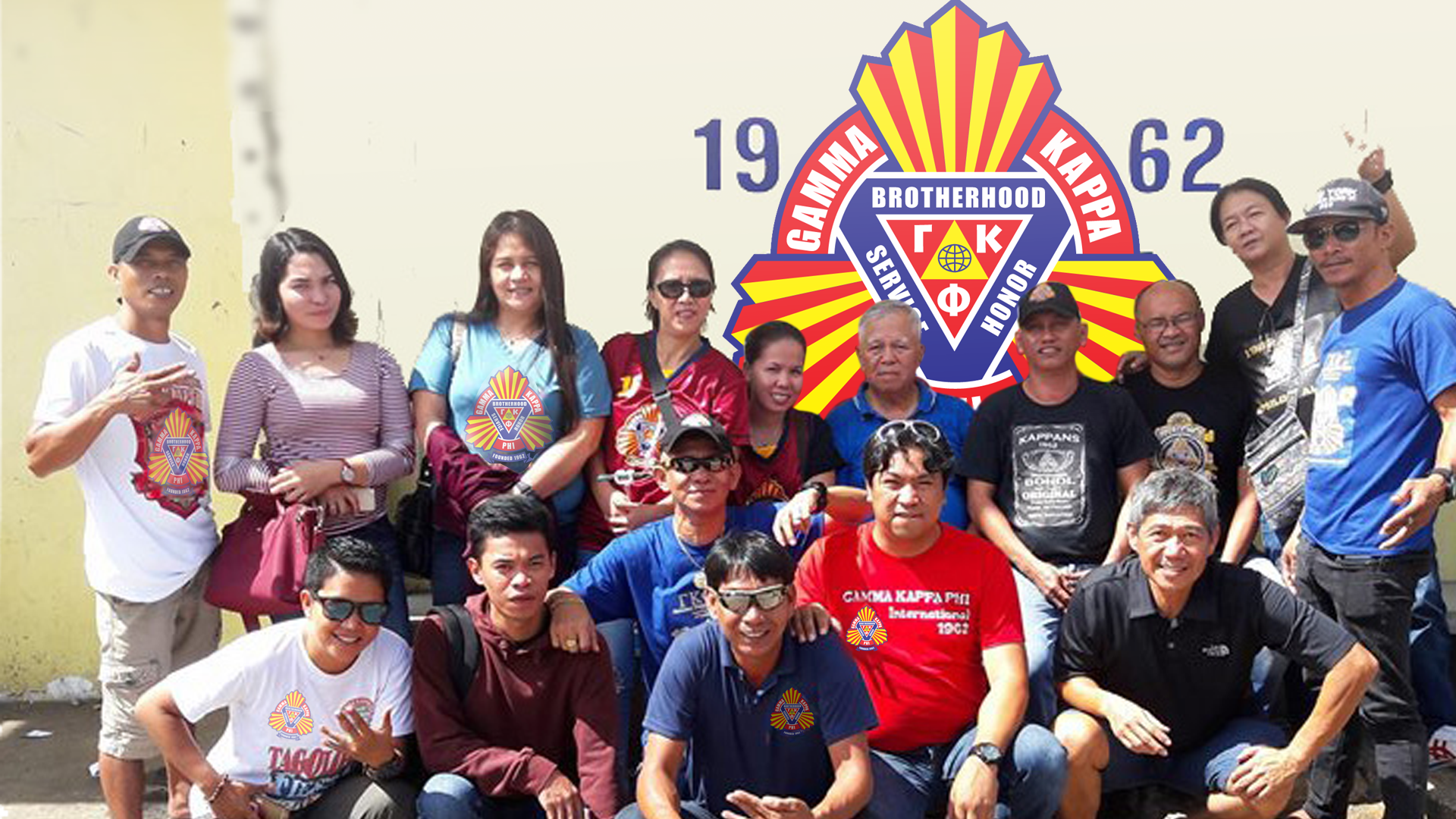 The popular Gamma Kappa Phi Seal Landmark in Balingoan, Misamis Oriental took during the visit of Founder Vicente Baquial and members.